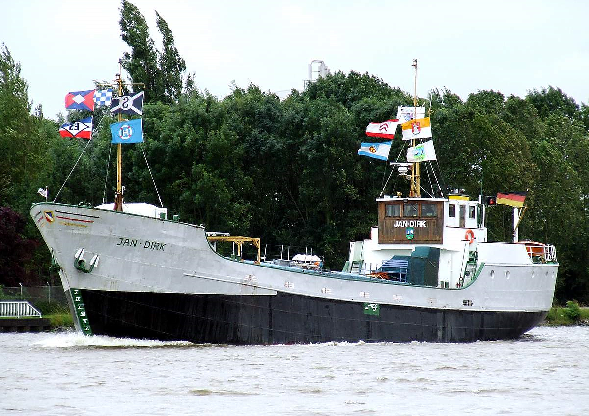 Coaster Jan-Dirk on the Kiel Canal